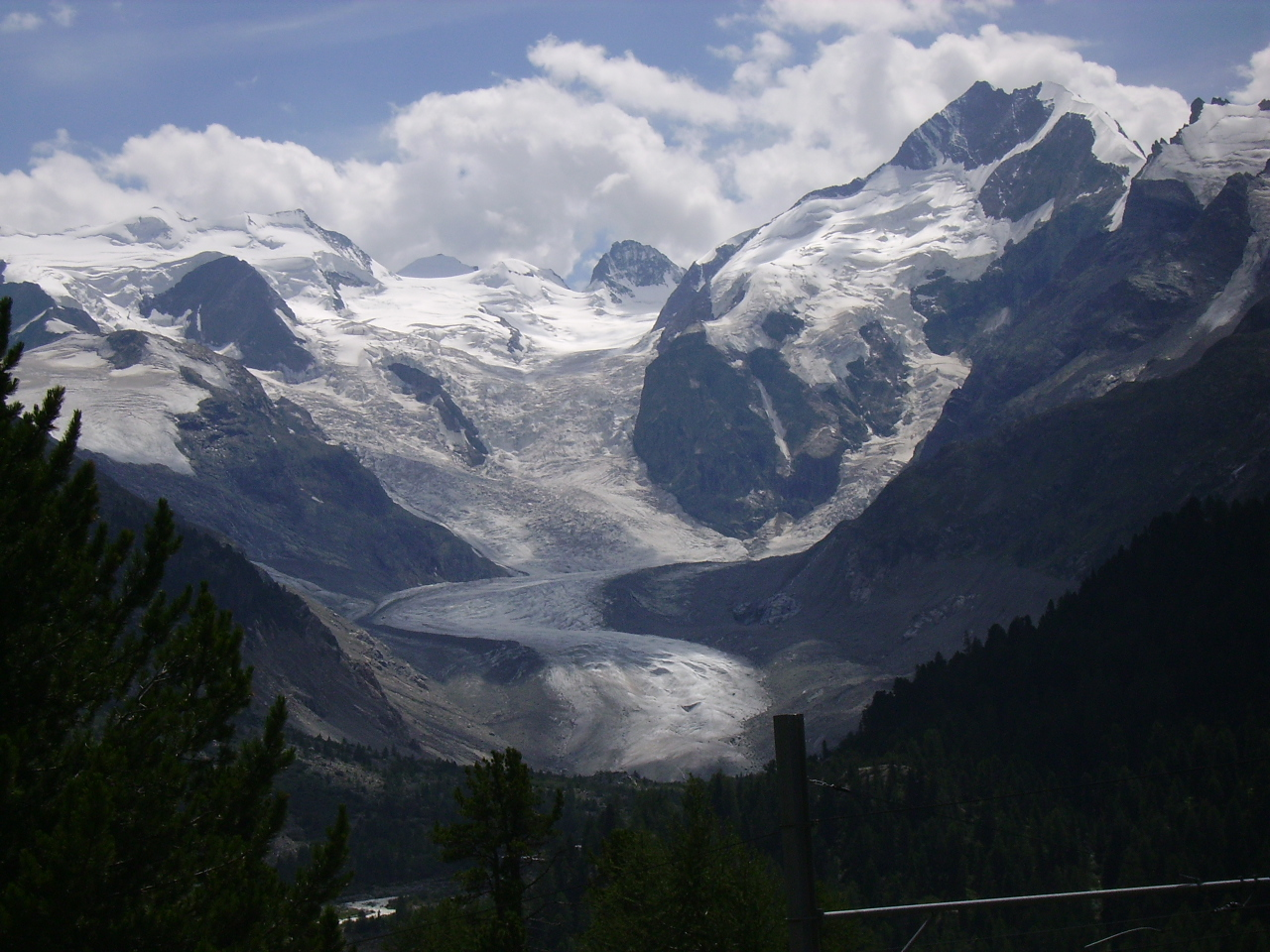 Il Pizzo Bernina, Grigioni Self photoshot July 2006